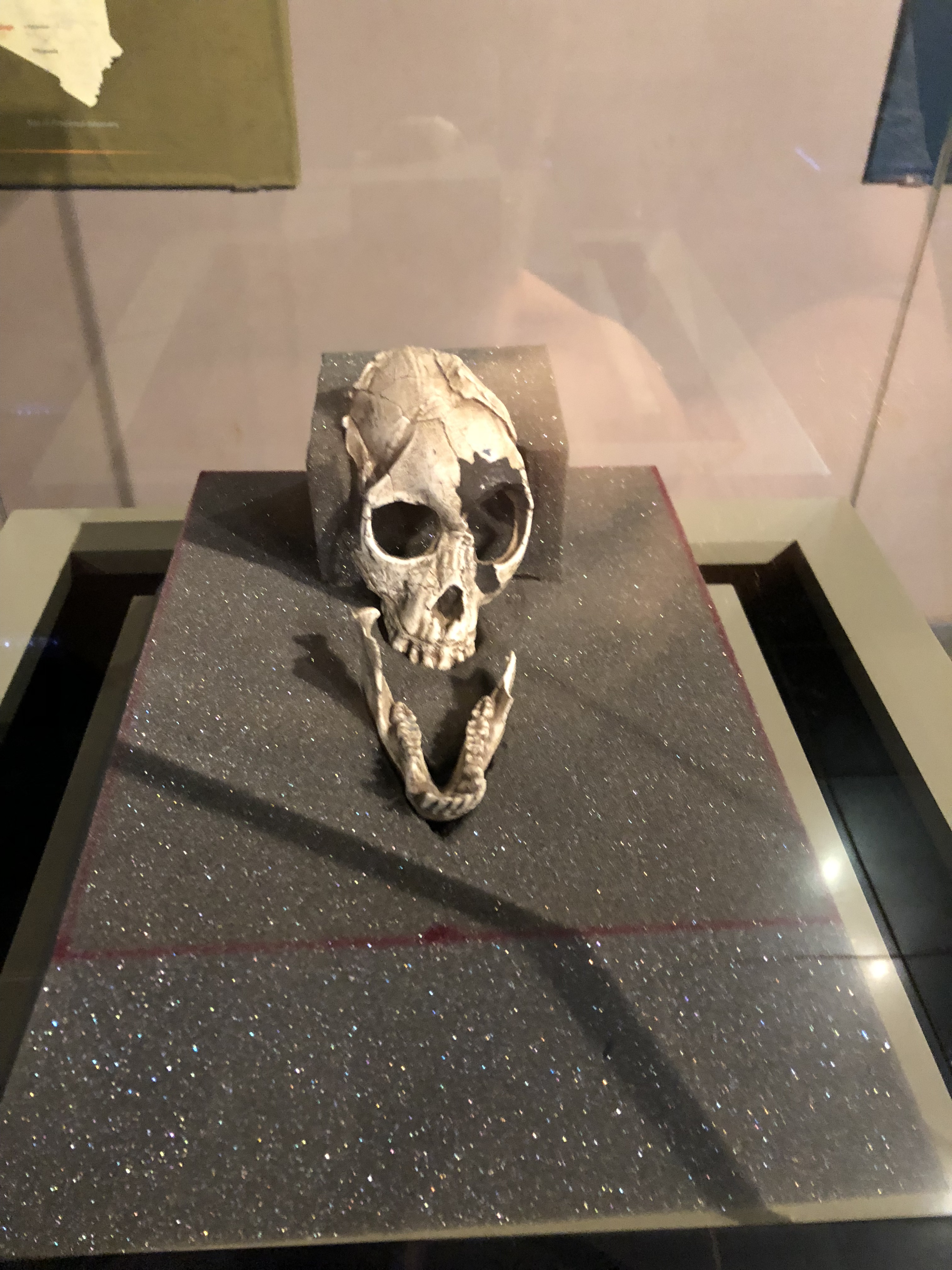 Used to be called Proconsul heseloni placed in the new genus Ekembo. actual not a cast